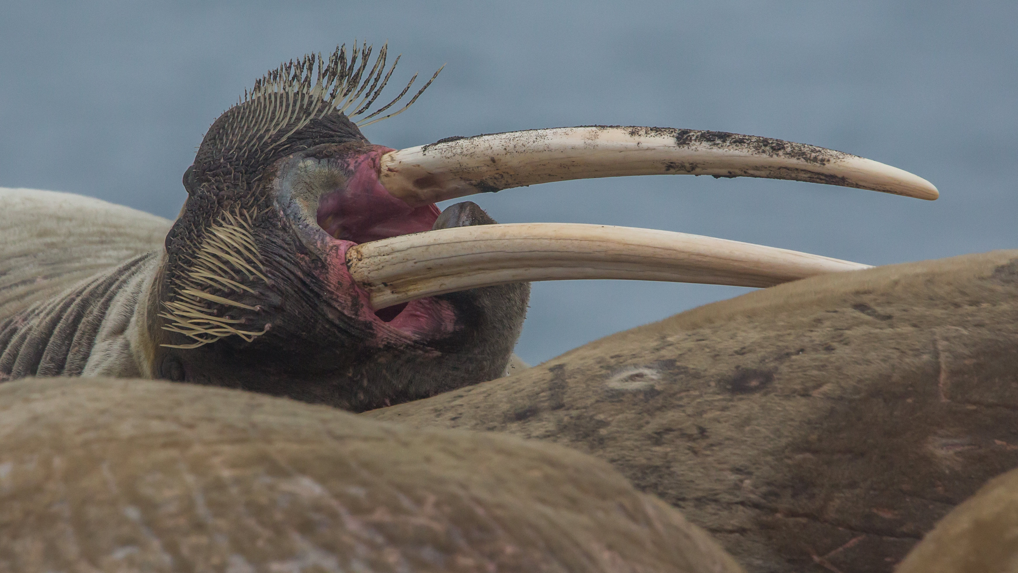 A pod of approximately 20 walruses ( Odobenus rosmarus) resides on Wahlberøya in Hinlopenstrait, Svalbard. They tend to rest side by side at the shore of the small island.